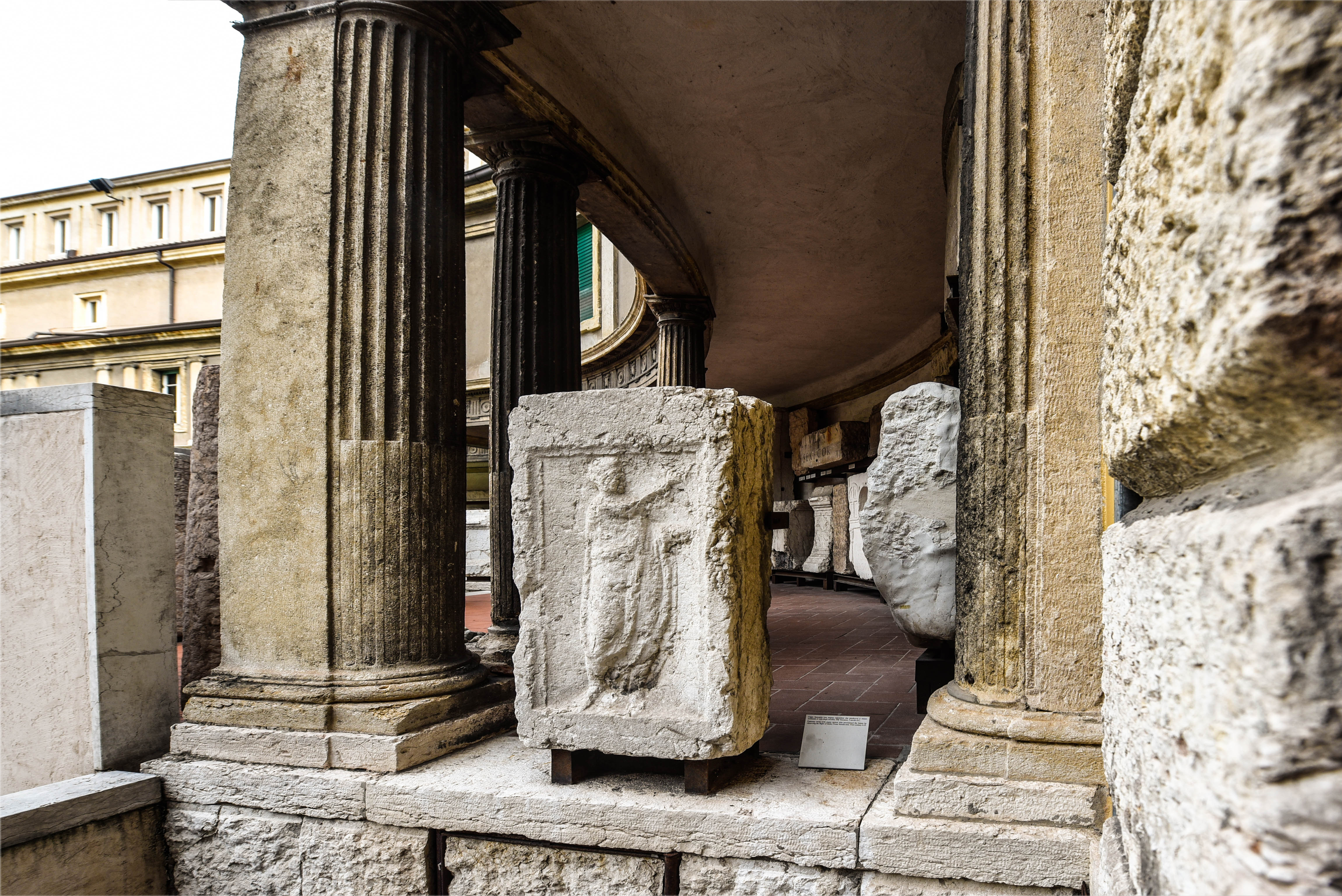 This is a photo of a monument which is part of cultural heritage of Italy.